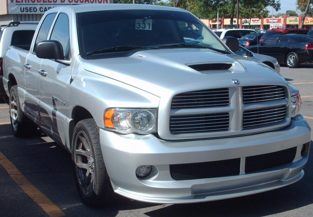 2004-2006 Dodge Ram SRT-10 photographed in Montreal, Quebec, Canada.